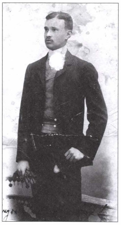 Béla Hunkár